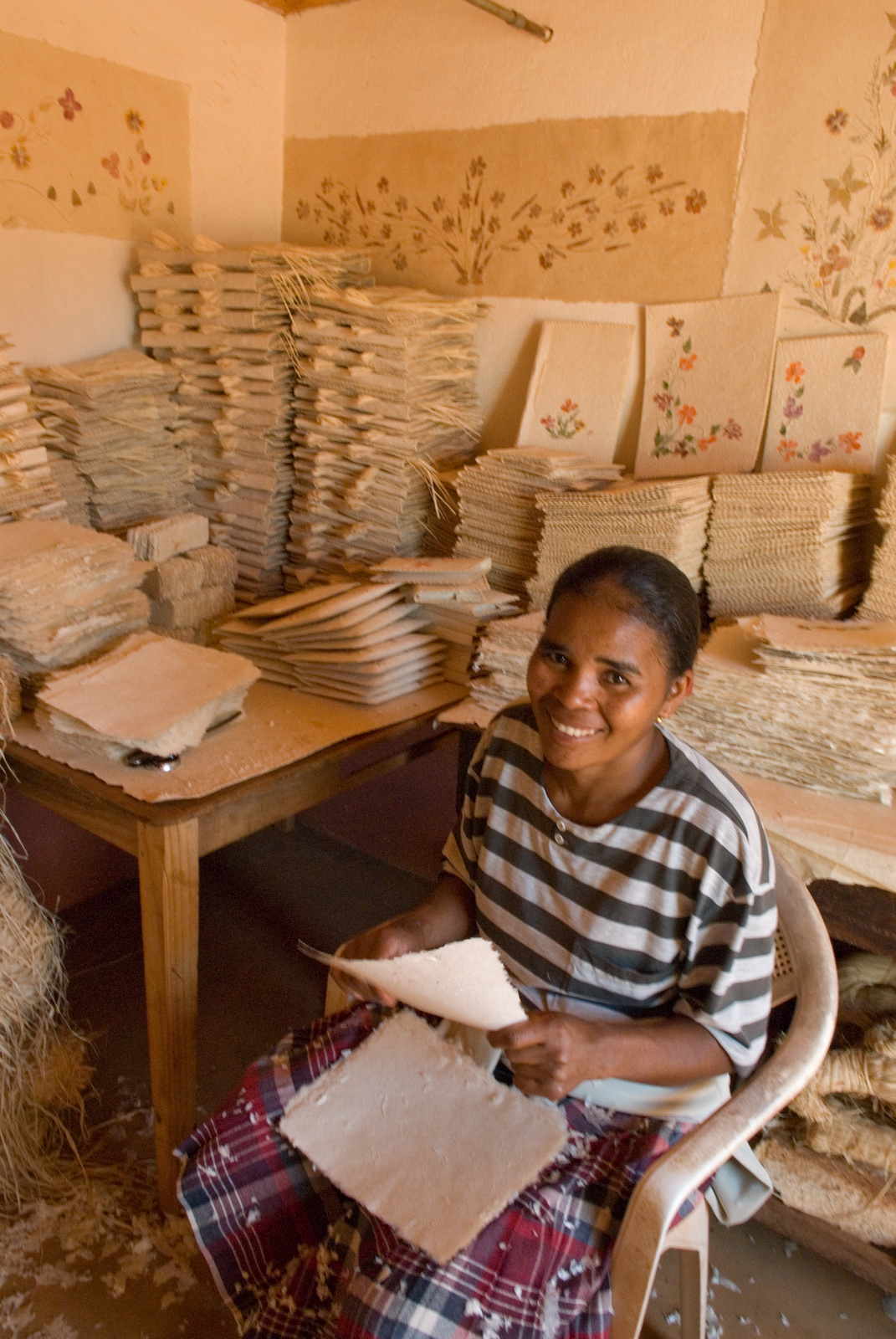 Manufacturing Antaimoro paper in Ambalavao (Madagascar), using a real fresh flowers (not pressed flowers)